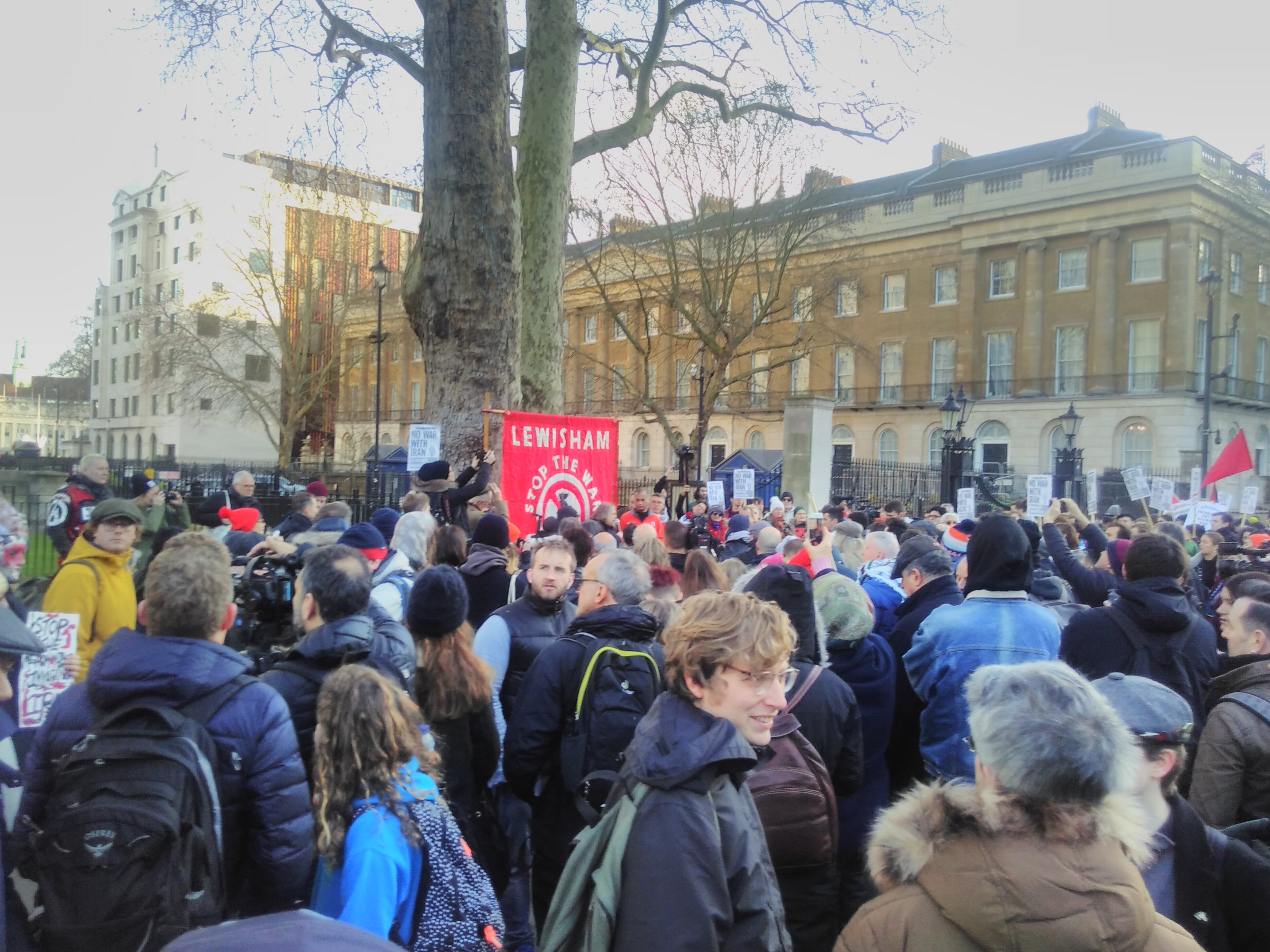 In response to the US's actions In Iran. Downing Street, London, UK